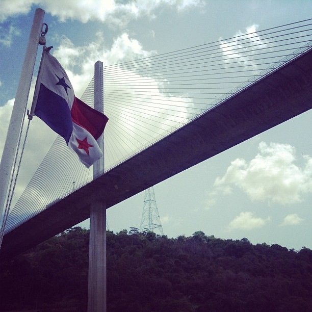 The Centennial Bridge